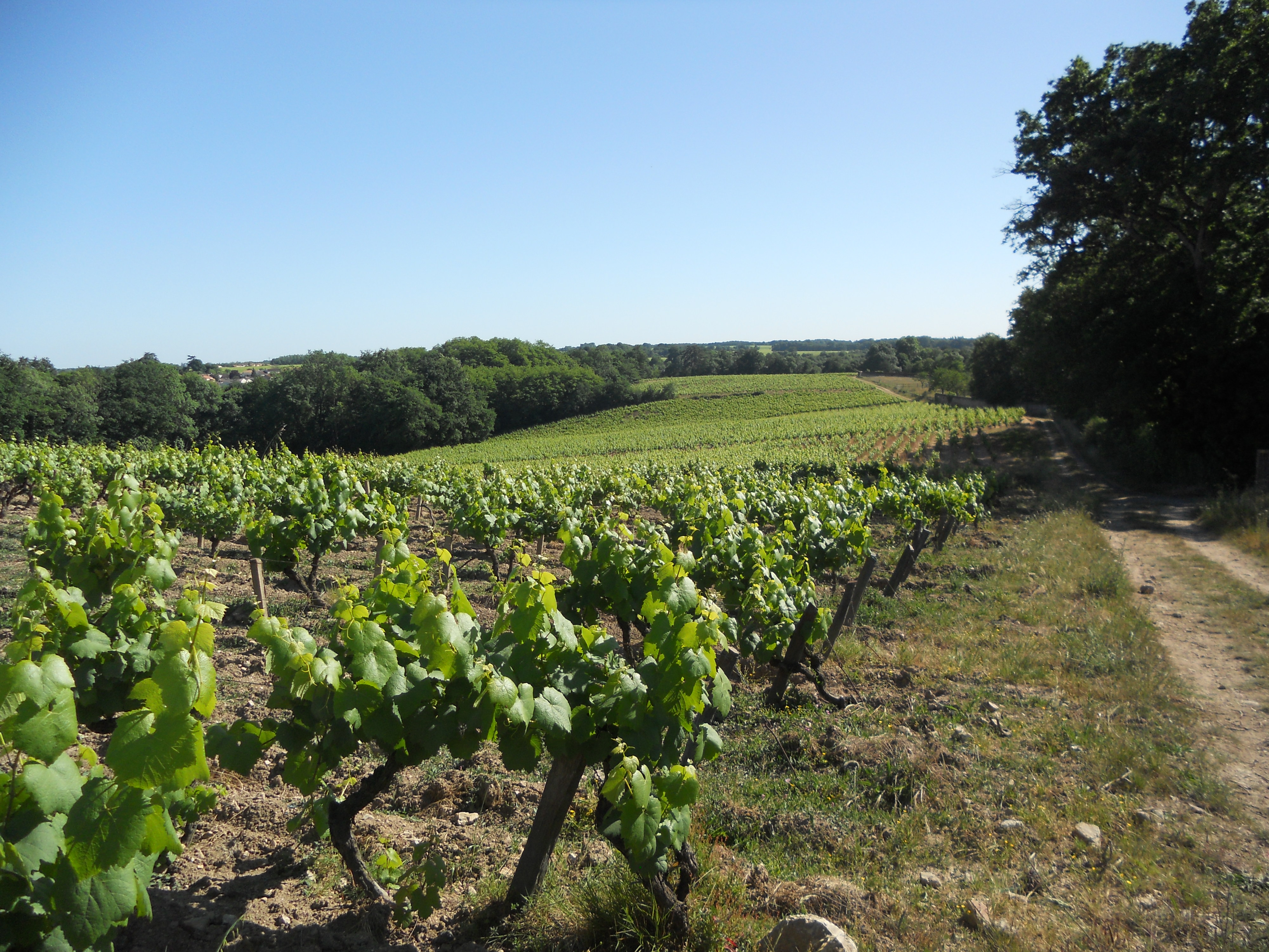 Vineyard of Melon de Bourgogne in the Muscadet Pays Nantes region of the Loire Valley